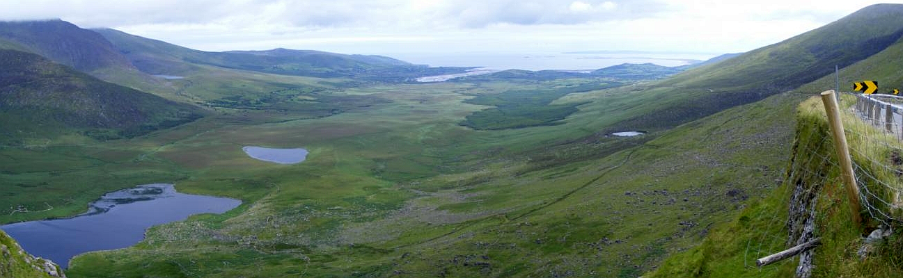 Panorama from Conor Pass (County Kerry)